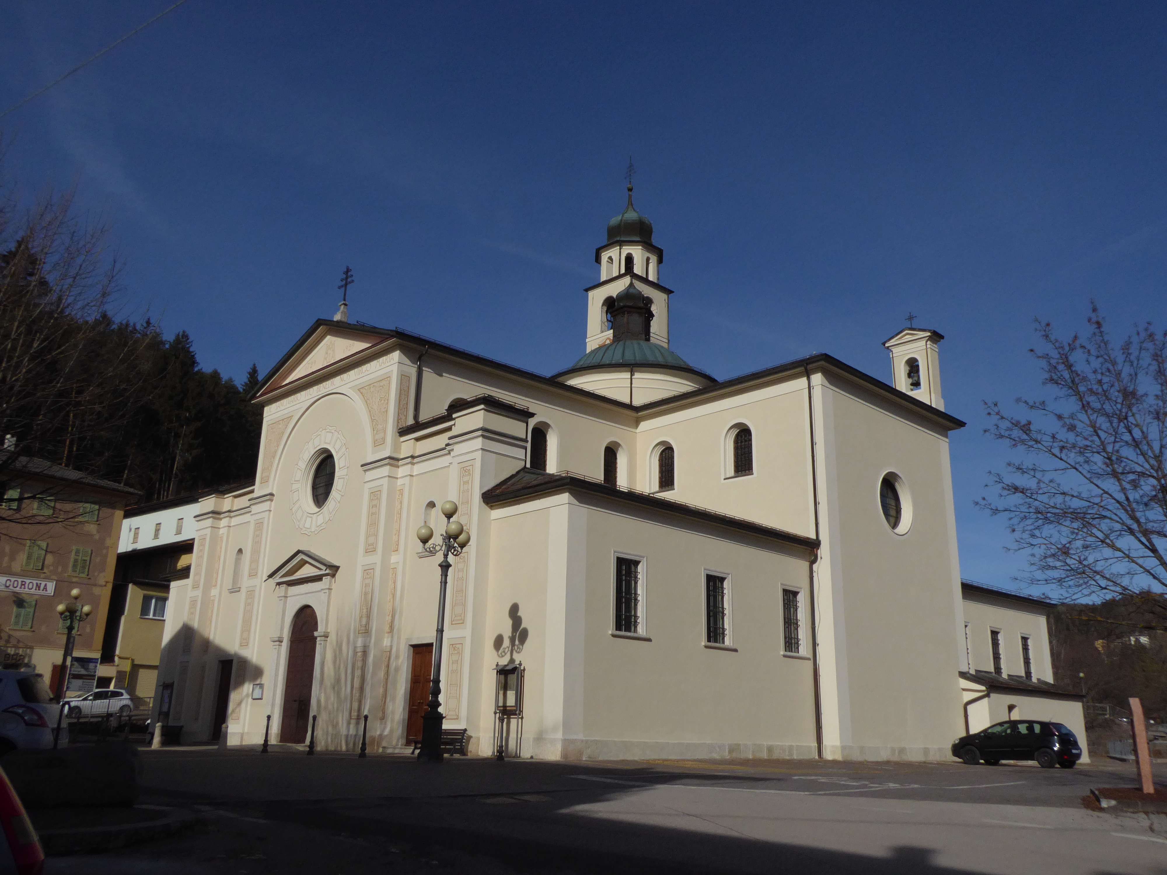 The "Santuario della Comparsa" in Montagnaga (Baselga di Piné, Trentino, Italy)